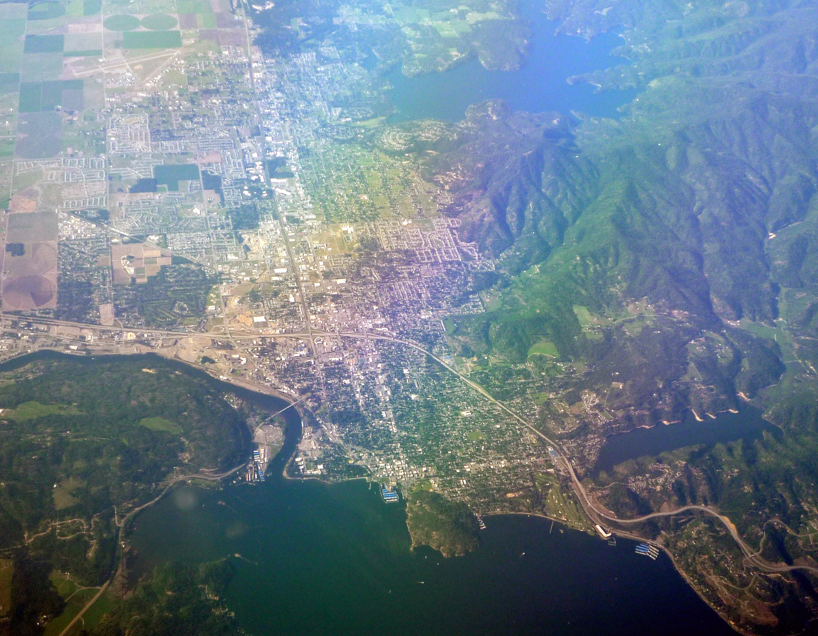 Aerial photo of Coeur d'Alene, Idaho, USA.